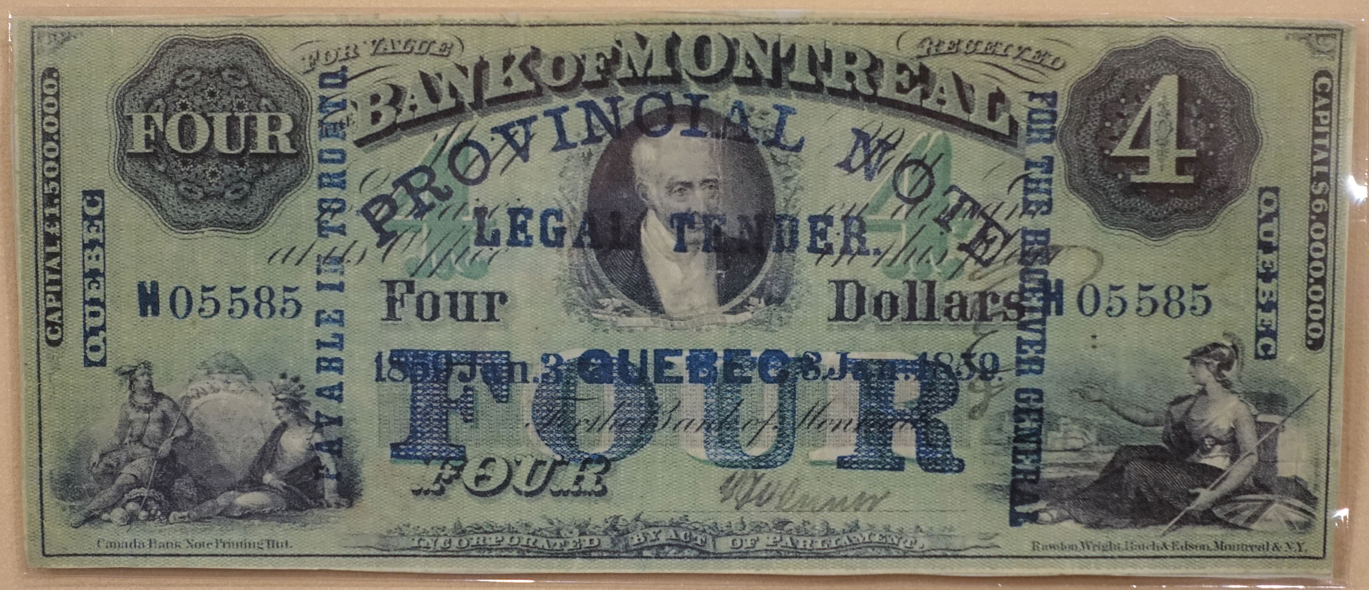 Exhibit in the Bank of Montréal Museum - Bank of Montreal, Main Montreal Branch - 119, rue Saint-Jacques, Montreal, Quebec, Canada.